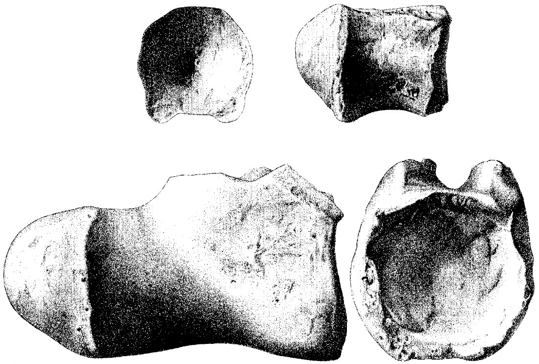 Titanosaurus indicus holotypic distal caudal vertebra.